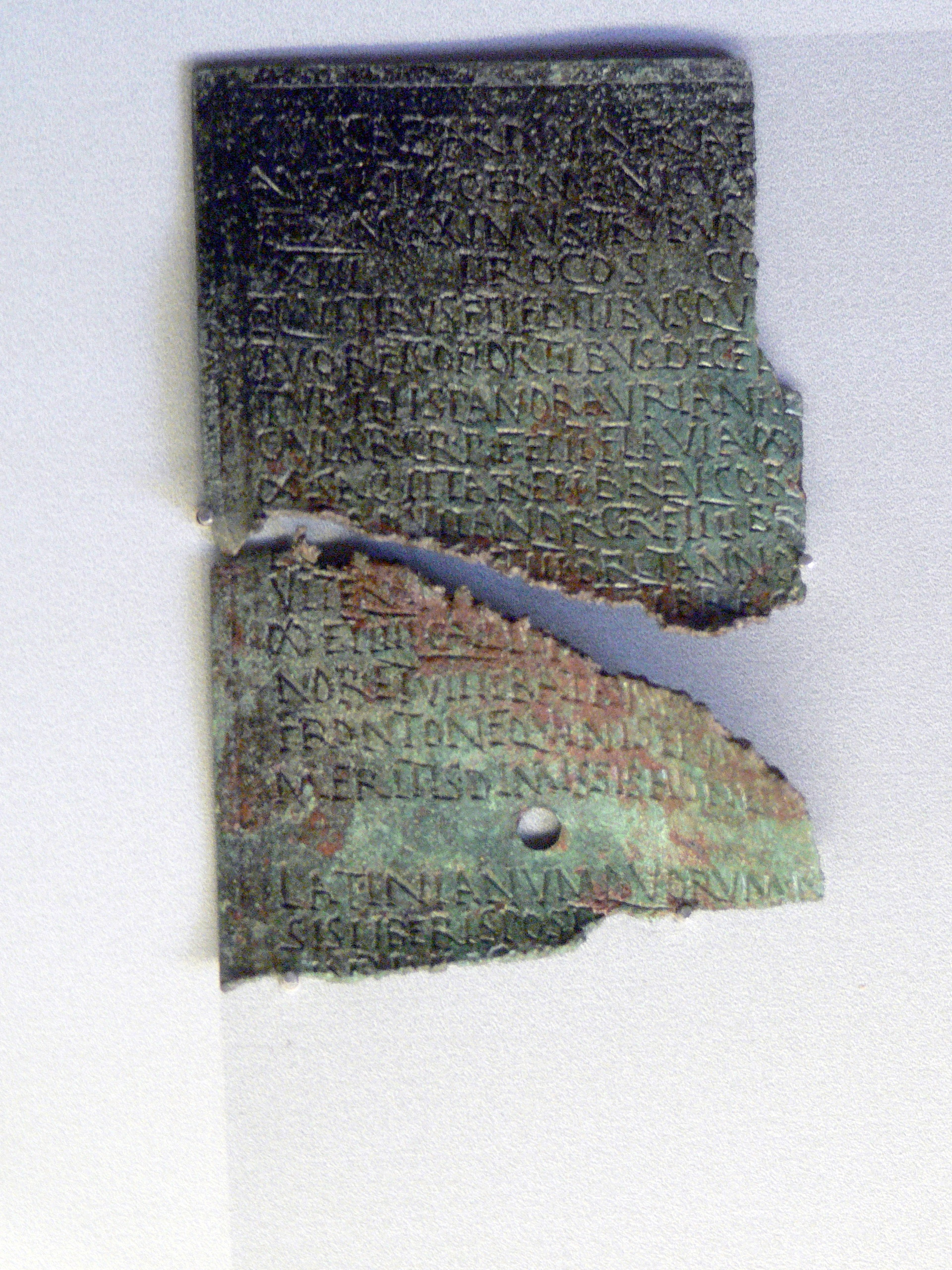 Museum Quintana - Roman department. Fragments of a military demission document, dated 116 AD